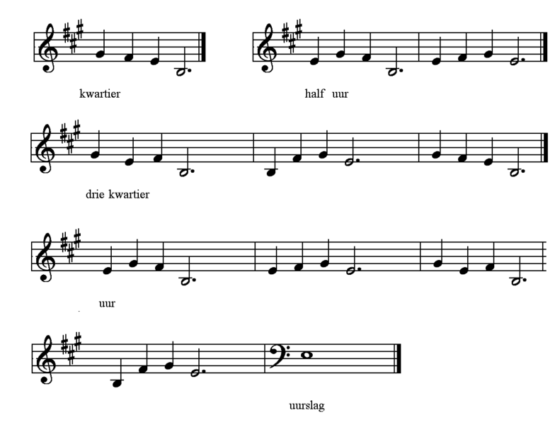 Dutch version of the Westminster Quarters.